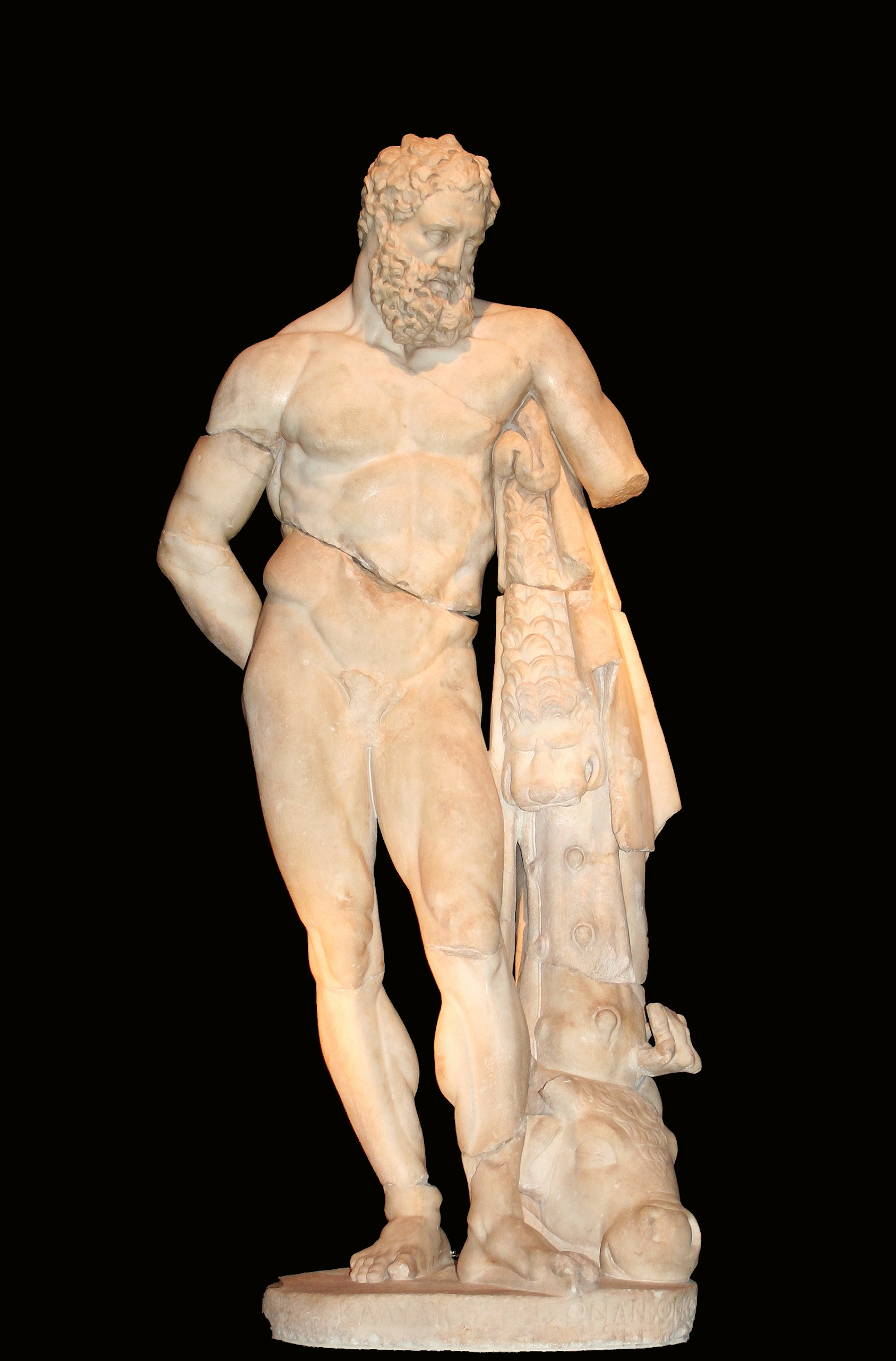 Weary Hercules / Antalya Museum found in Perge near Antalya